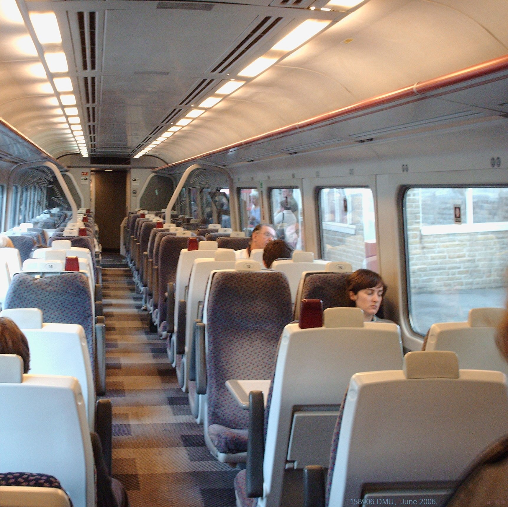 West Yorkshire Metro two-car DMU 158906 interior.